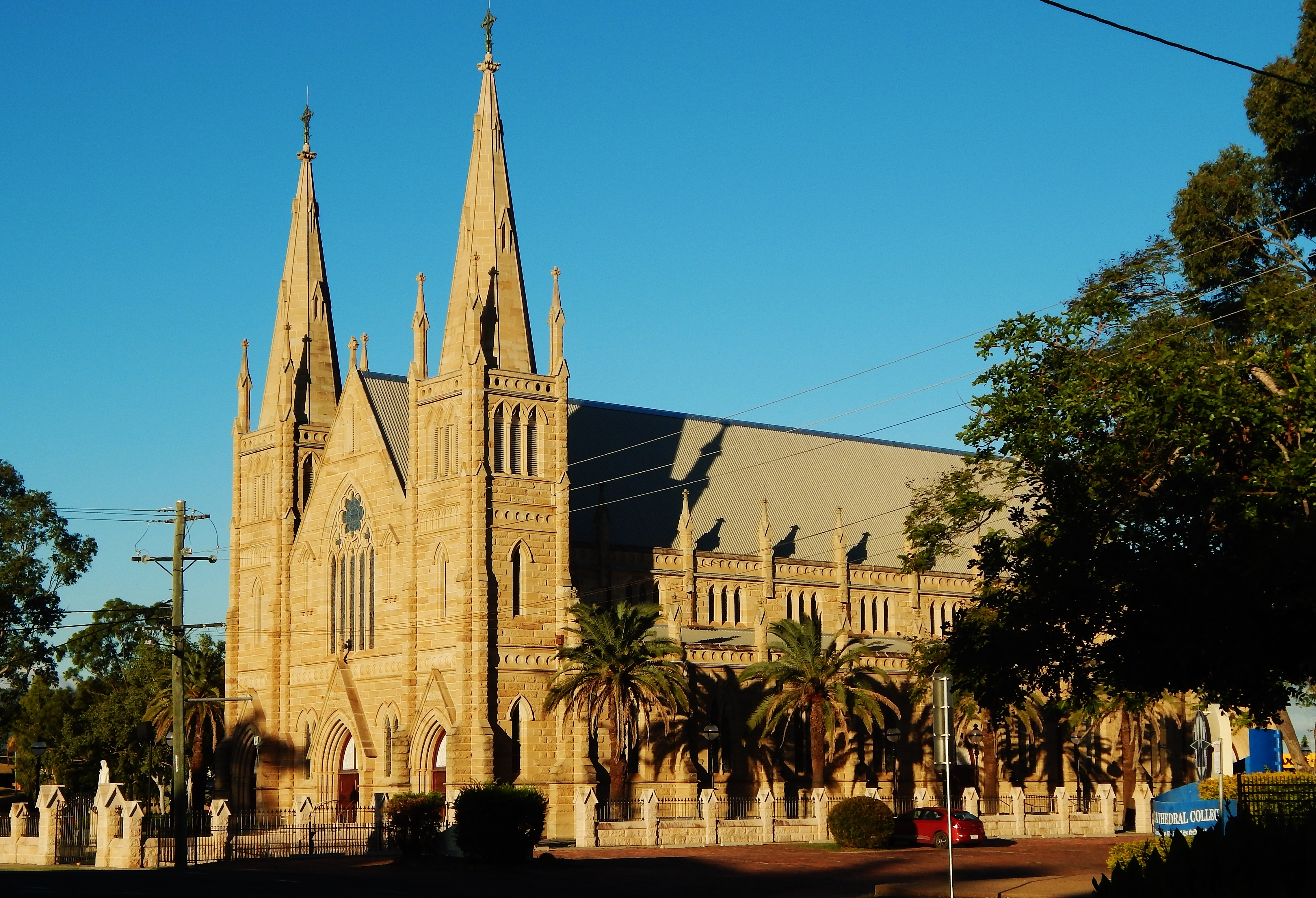 The heritage-listed St Joseph's Cathedral in Rockhampton in 2017